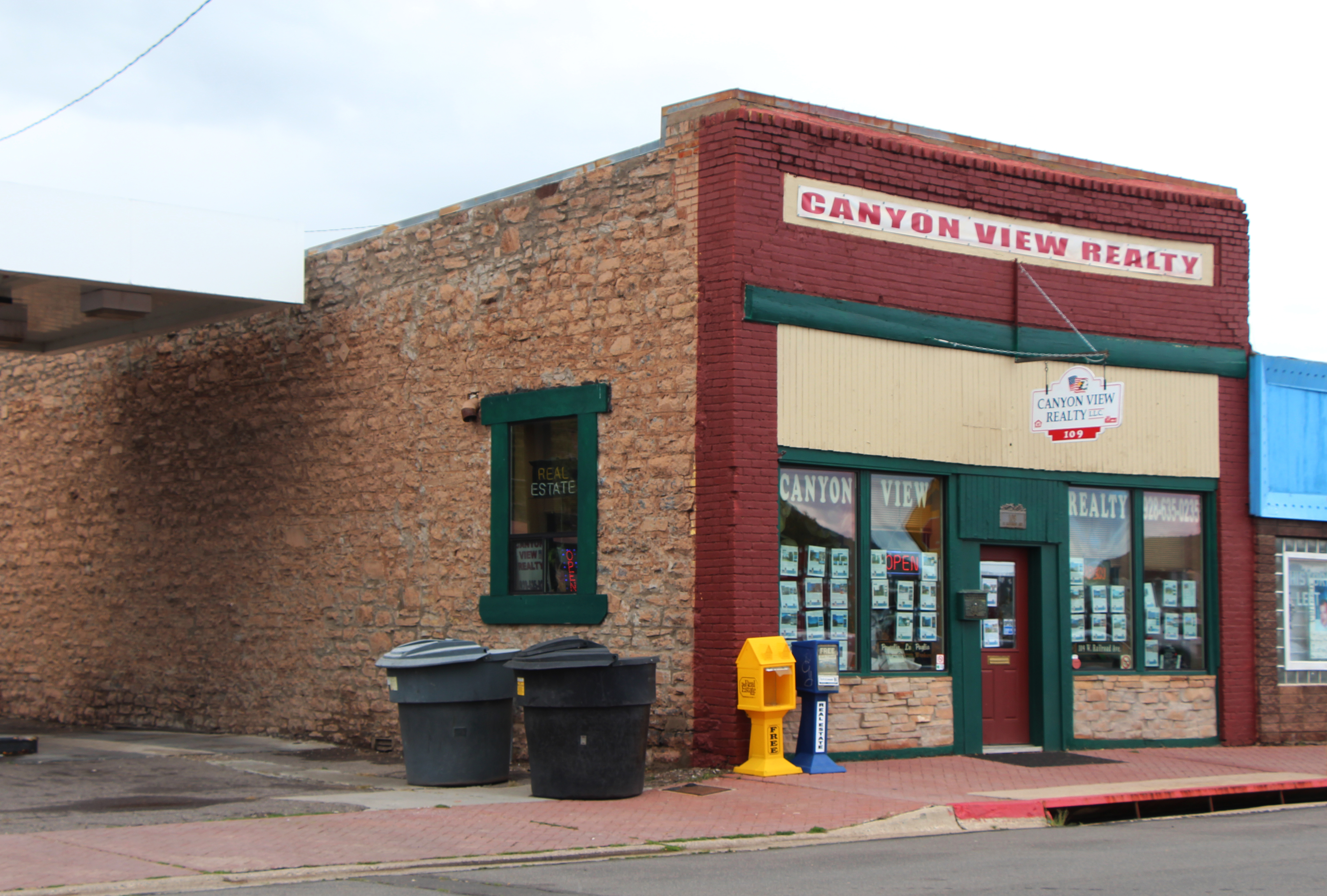 Whiskey Alley Saloon, 109 W. Railroad Ave., Williams, AZ